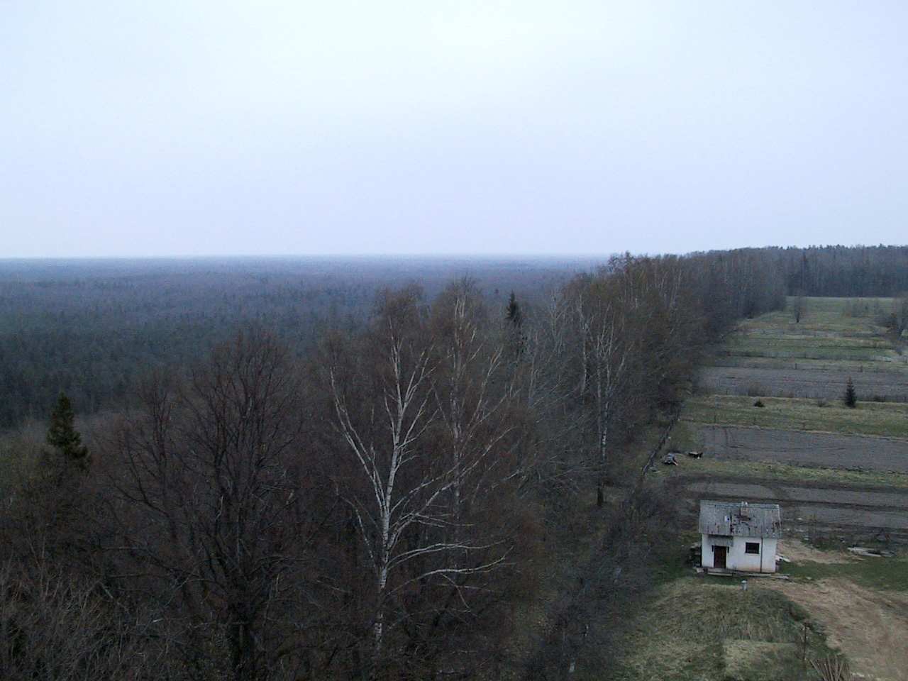 View from Slitere lighthouse over the Slitere National Park